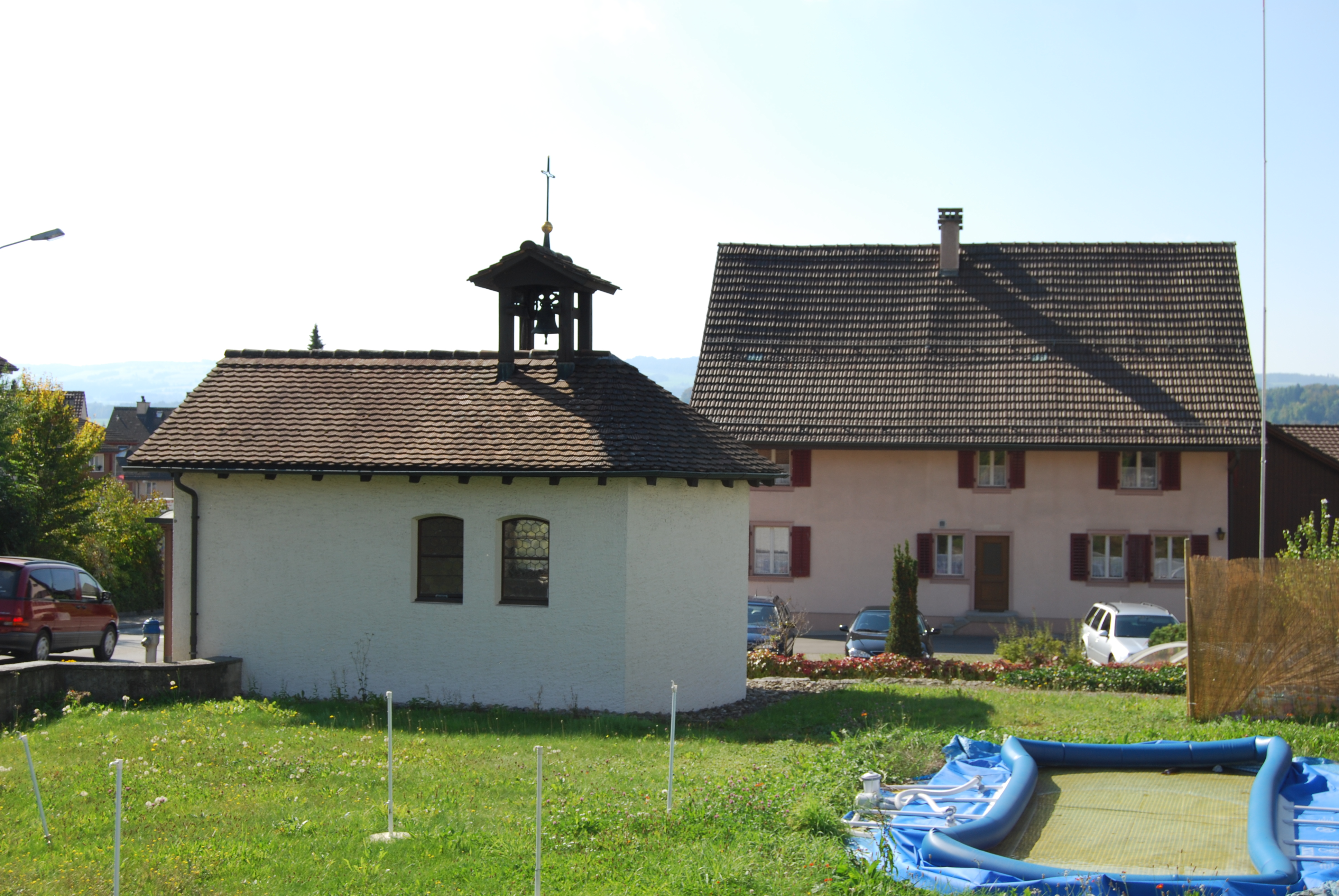 Chapel at Unterlunkhofen, canton of Aargau, SwitzerlandEsperanto: Kapelo en Unterlunkhofen, Kantono Argovio, Svislando